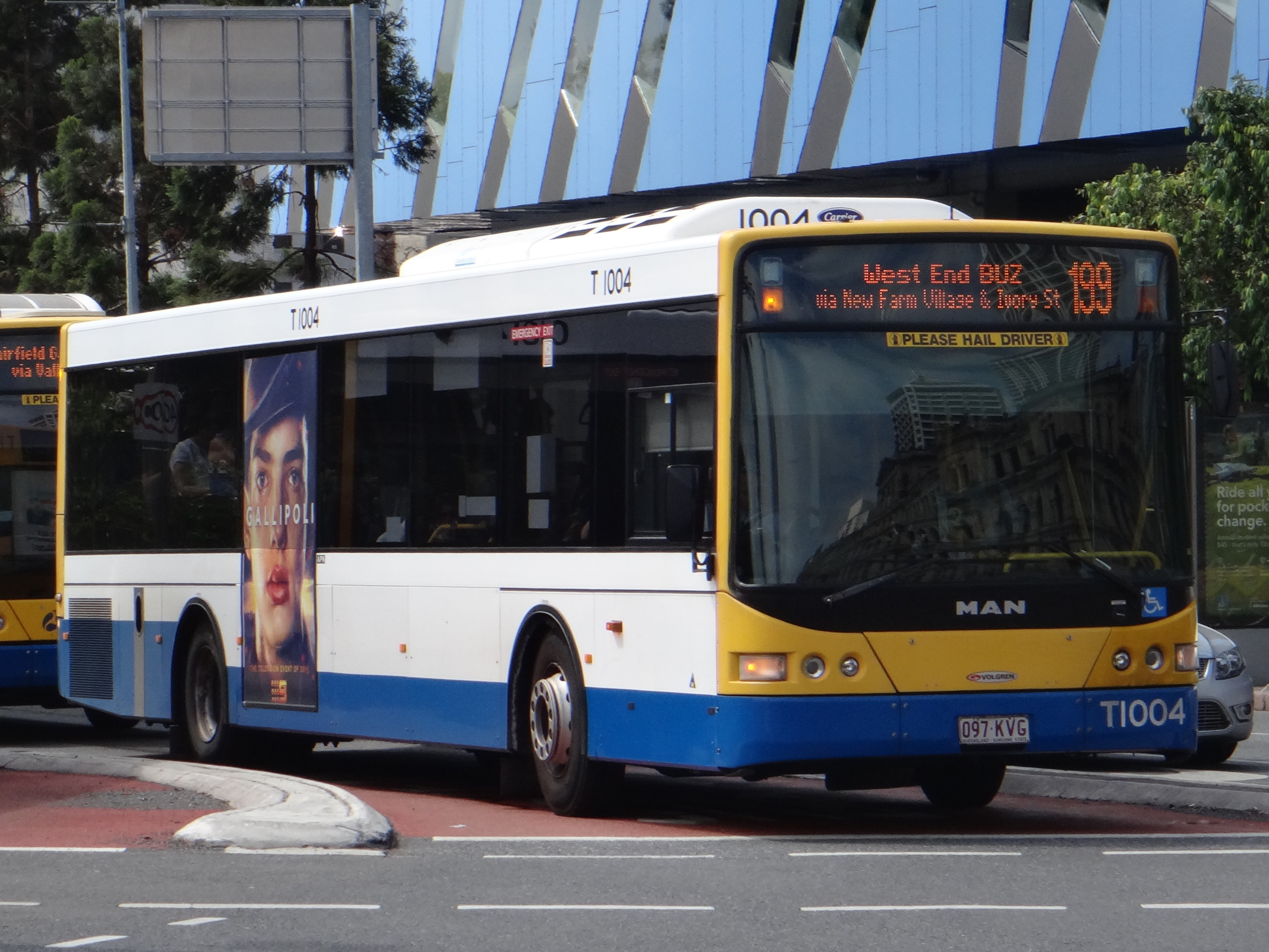 Brisbane Transport MAN 18.310 bus with Volgren CR228L body.